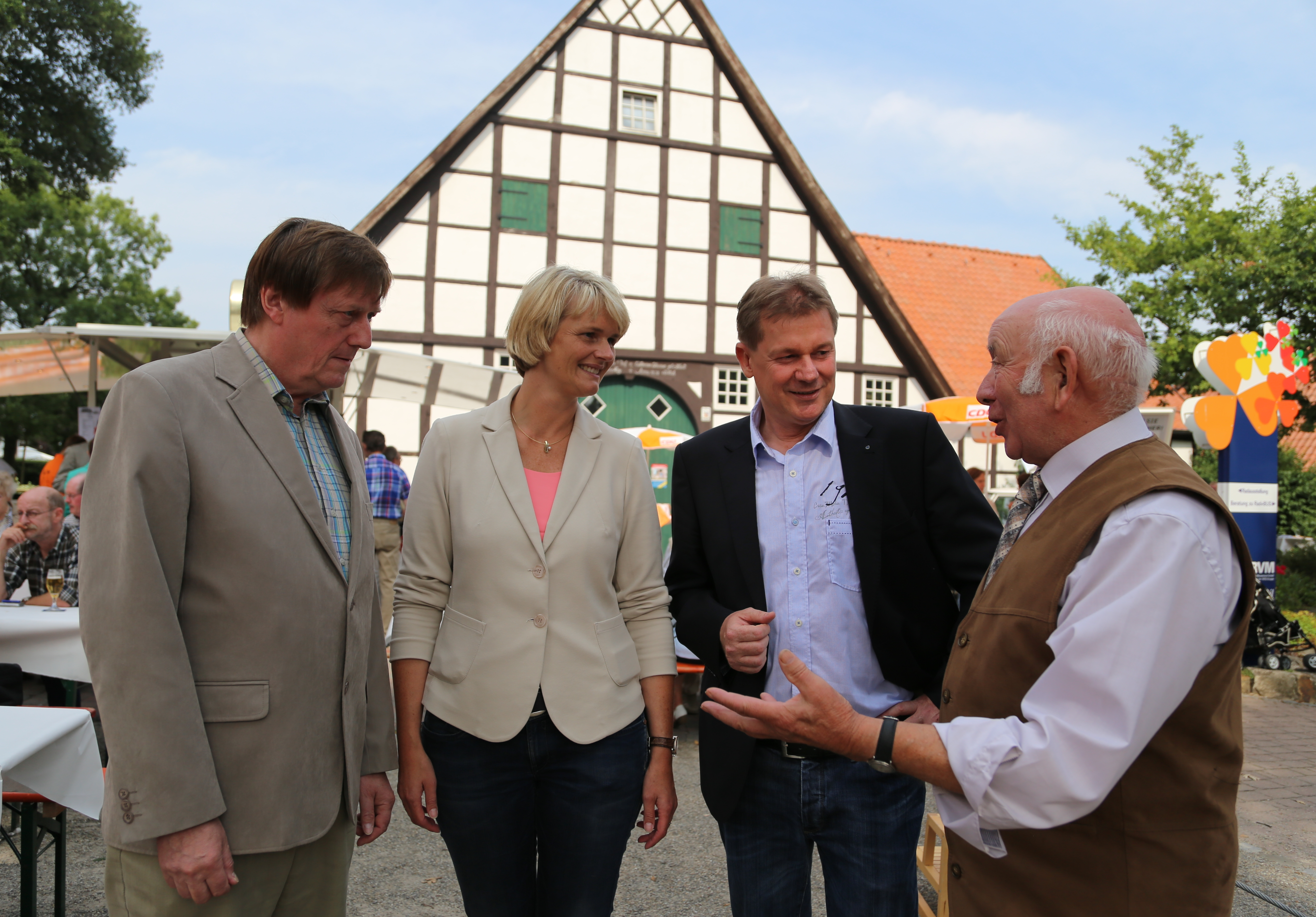 Hermann Fischer (right), CDU member from Recke, in conversation with the politicians (left to right) Wilfried Grunendahl (member of Landtag of North Rhine-Westphalia), Anja Karliczek (CDU Bundestag candidate) and Dr. Markus Pieper (member of the European Parliament) at the Schultenhof in Mettingen, Kreis Steinfurt, North Rhine-Westphalia, Germany.